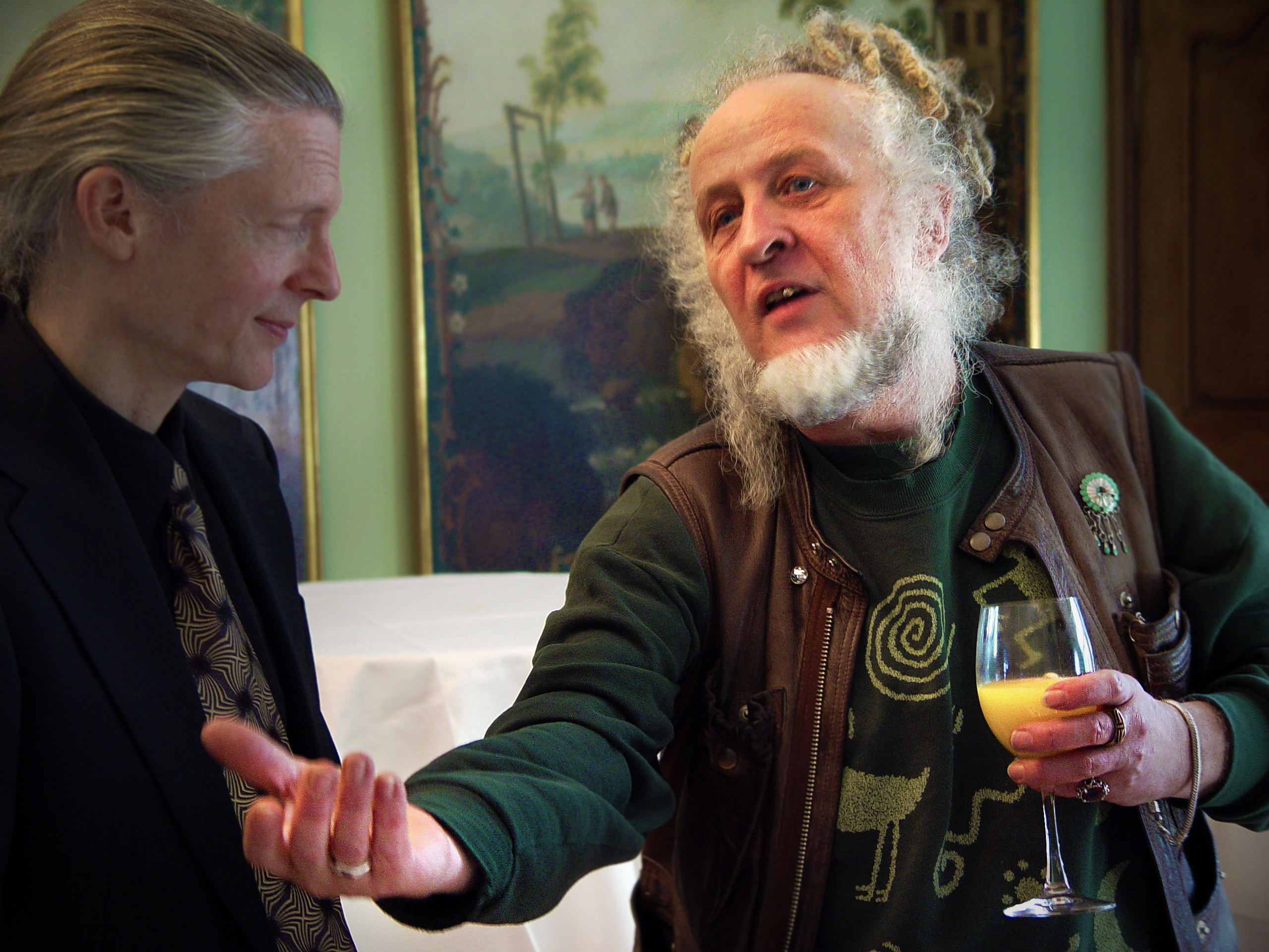 Werner Pieper (right) with Alex Grey (left) at Albert Hofmann's 100th birthday party in Basel, Switzerland.